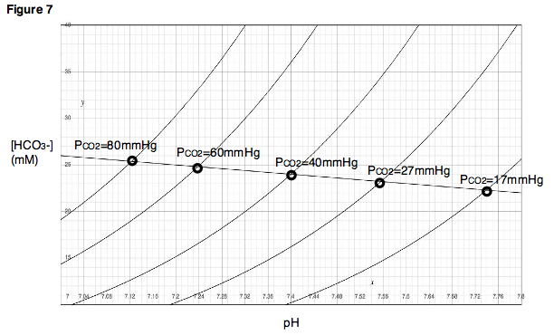 Description: Figure 7. A titration curve can be generated for any given PCO2.